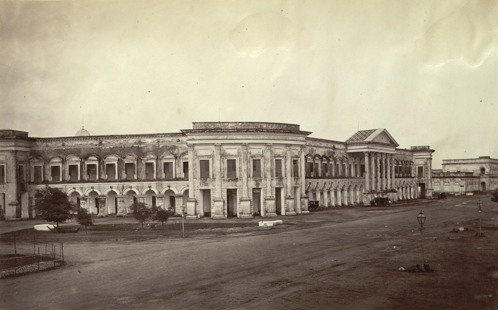 Photograph of District Courts and Public Offices, Strand Road Rangoon uploaded by Fowler&fowler«Talk» 19:07, 2 November 2008 (UTC)